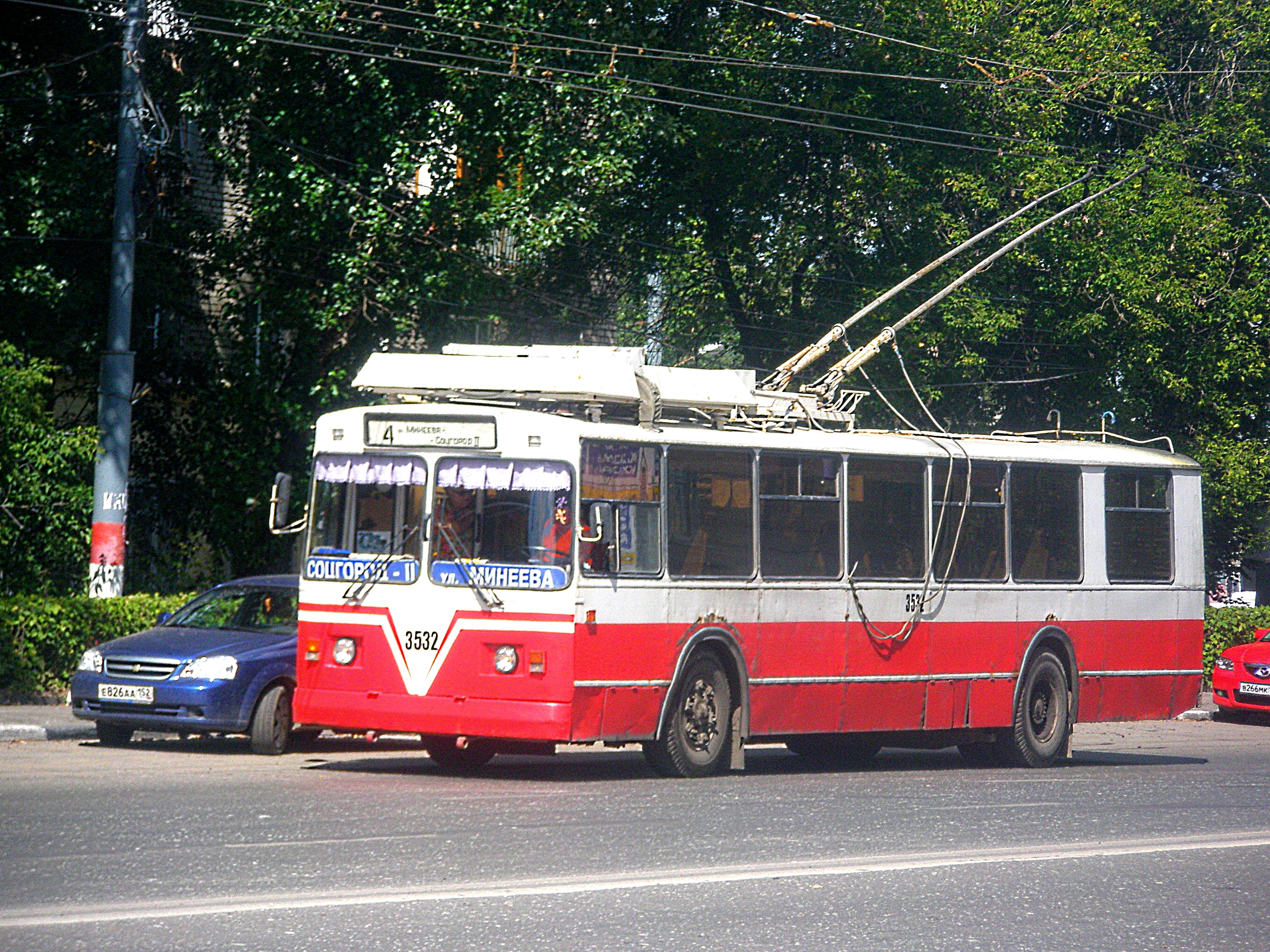 Trolleybus ZiU-682 KR Ivanovo in Nizhny Novgorod